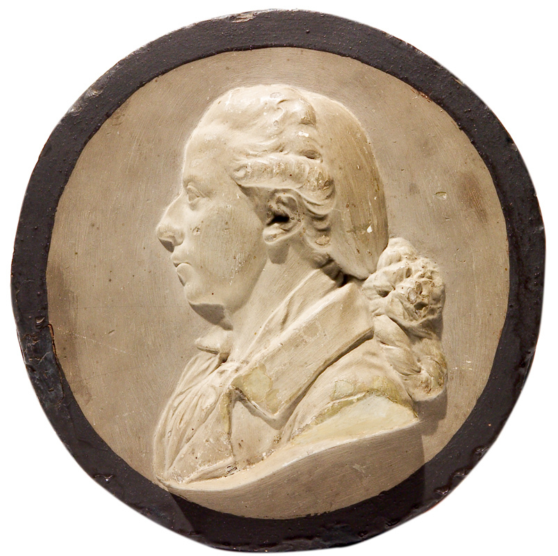 Nicolai Dajon (1748-1823), Stamhusbesidder Jens Lowson, 1780-1789